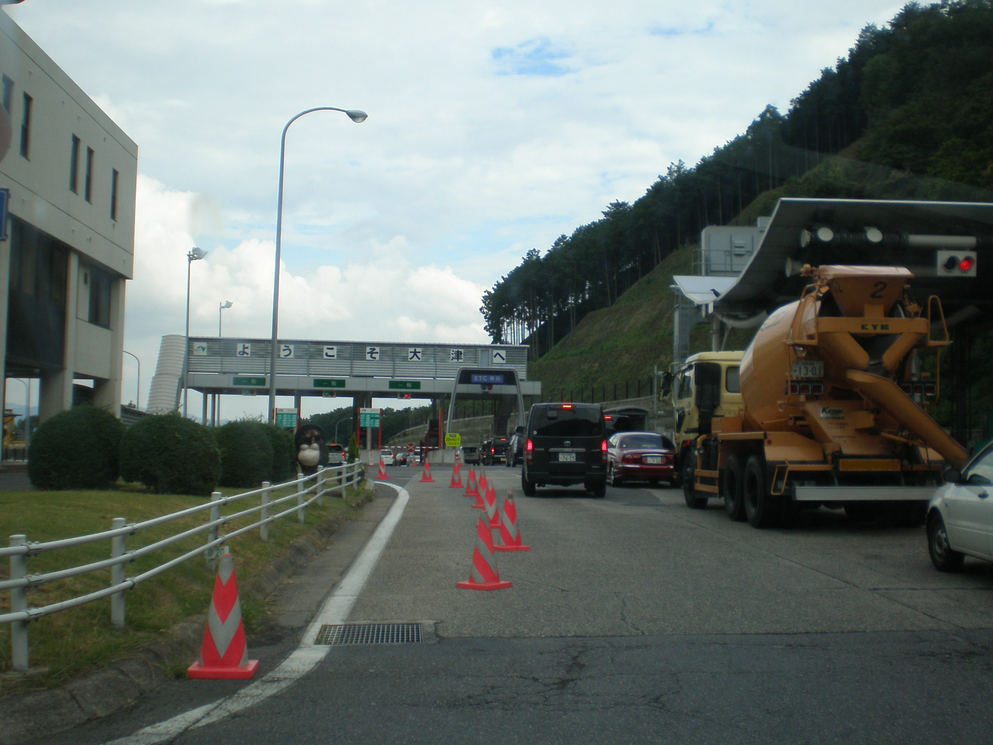 Otsu Interchange on the Meishin Expressway in Asahigaoka 2-chome, Otsu City, Shiga Prefecture, Japan